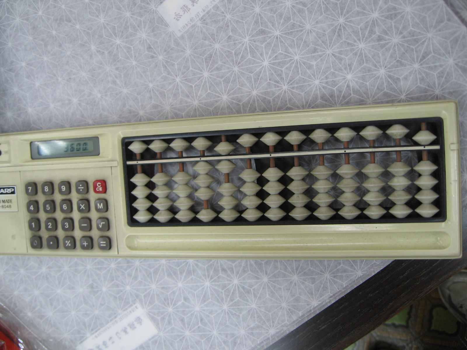 Modern abacus currently used in Japan; SHARP ELSI MATE EL-8048. Produced from 1979. Seen in use in a cloth shop in Hotaru, Hokkaido, in August 2009. Actually it is a soroban, coupled with an electronic calculator.